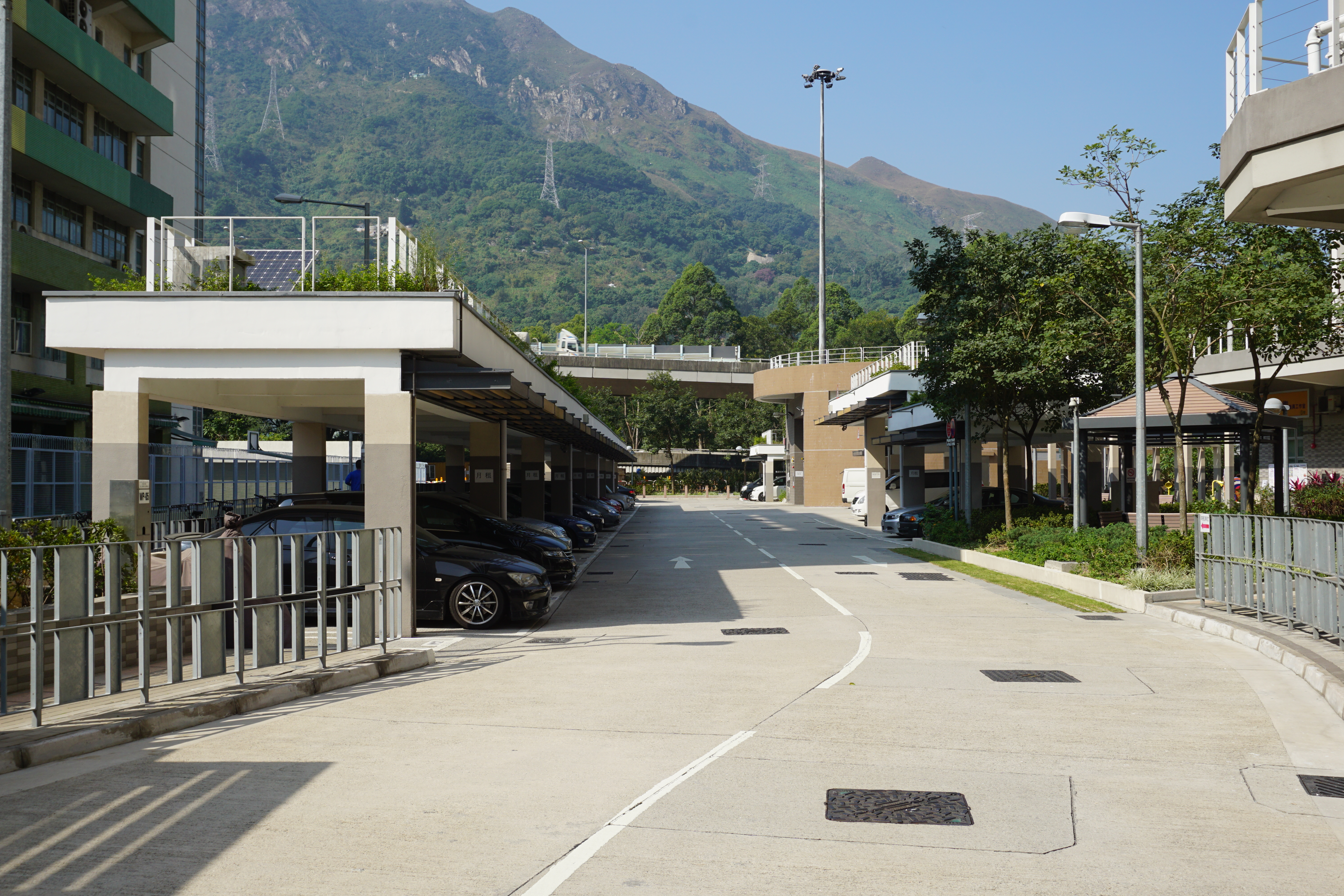 Lung Yat Estate in Tuen Mun, Hong Kong.